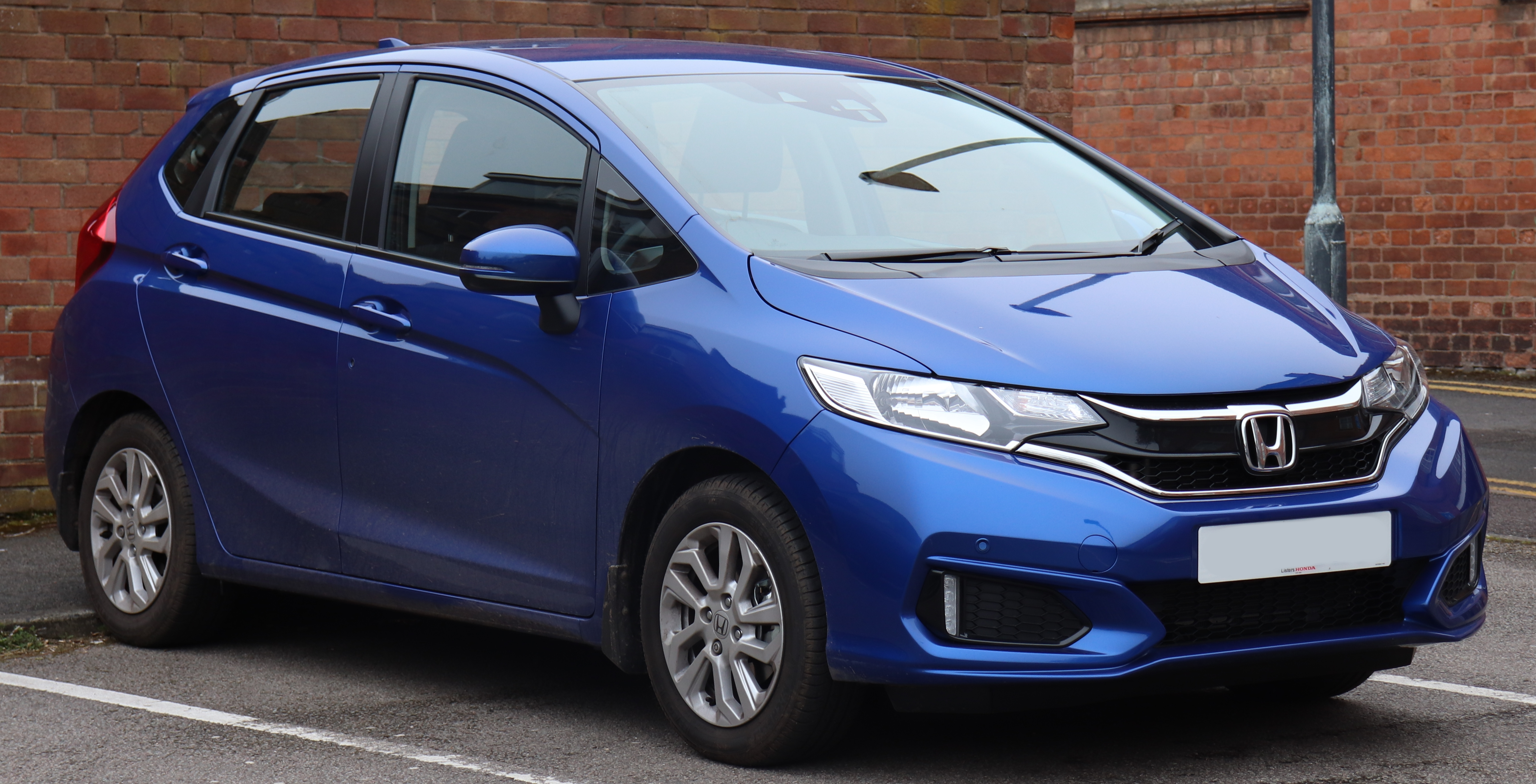 2018 Honda Jazz SE i-VTEC facelift 1.3 Taken in Warwick